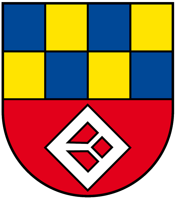 Coat of arms of Gemünden